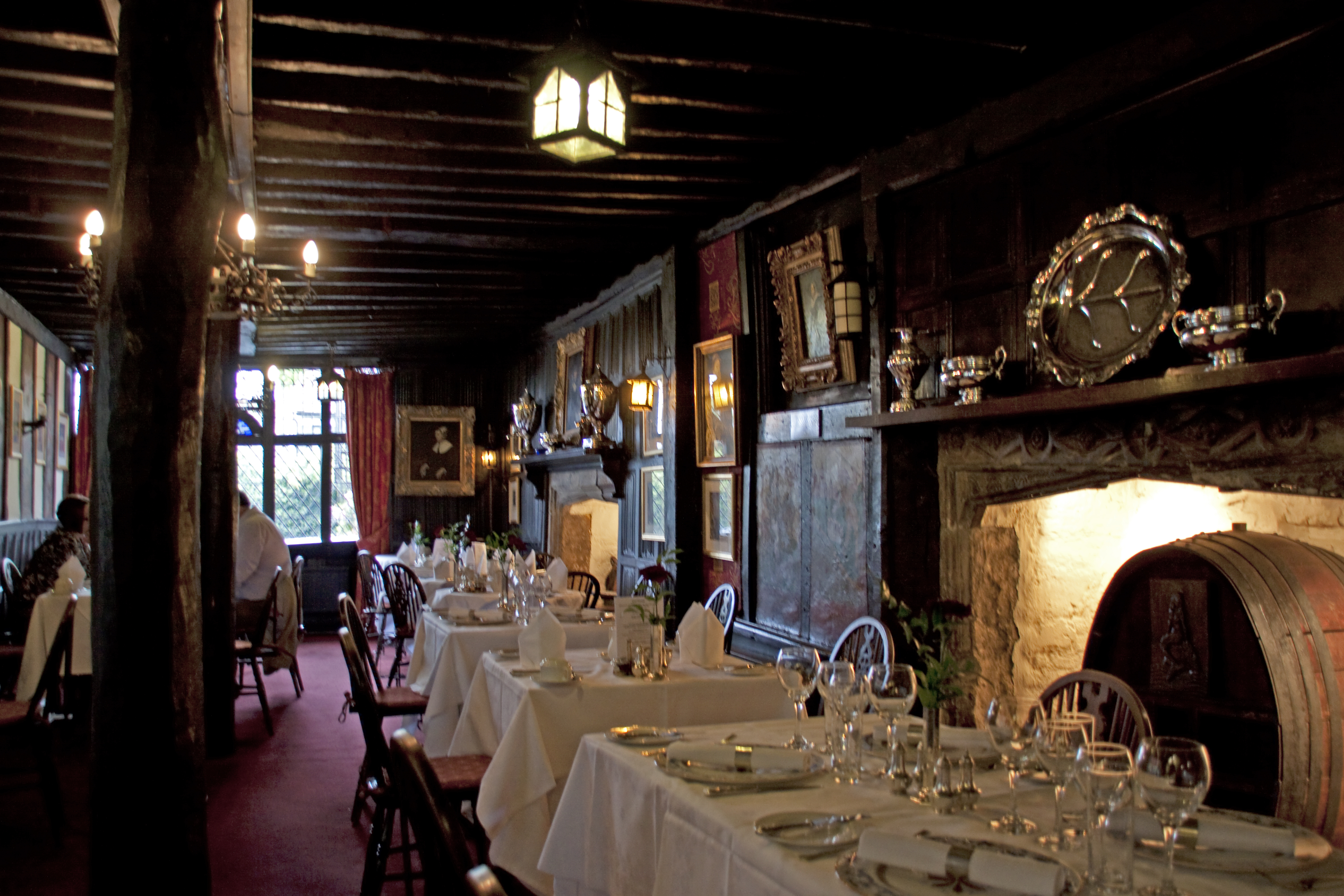 Dining Room, The Mermaid Inn, Rye, East Sussex.